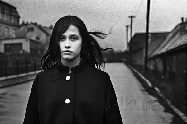 Jaroslav Kučera´s photography Personality rights warningAlthough this work is freely licensed or in the public domain, the person(s) shown may have rights that legally restrict certain re-uses unless those depicted consent to such uses. In these cases, a model release or other evidence of consent could protect you from infringement claims.